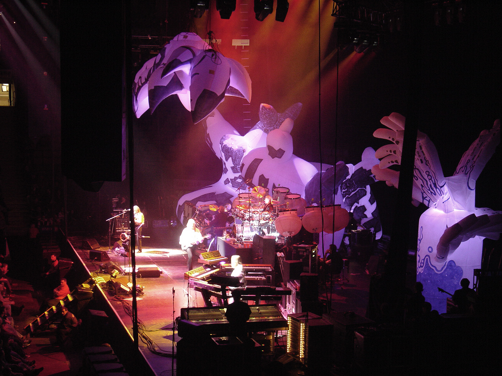 Yes concert at Air Canada Centre, Toronto, Ontario